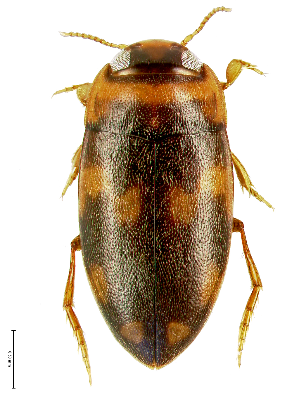 Neobidessodes thoracicus Dorsal Habitus Coleoptera: Dytiscidae: Hydroporinae